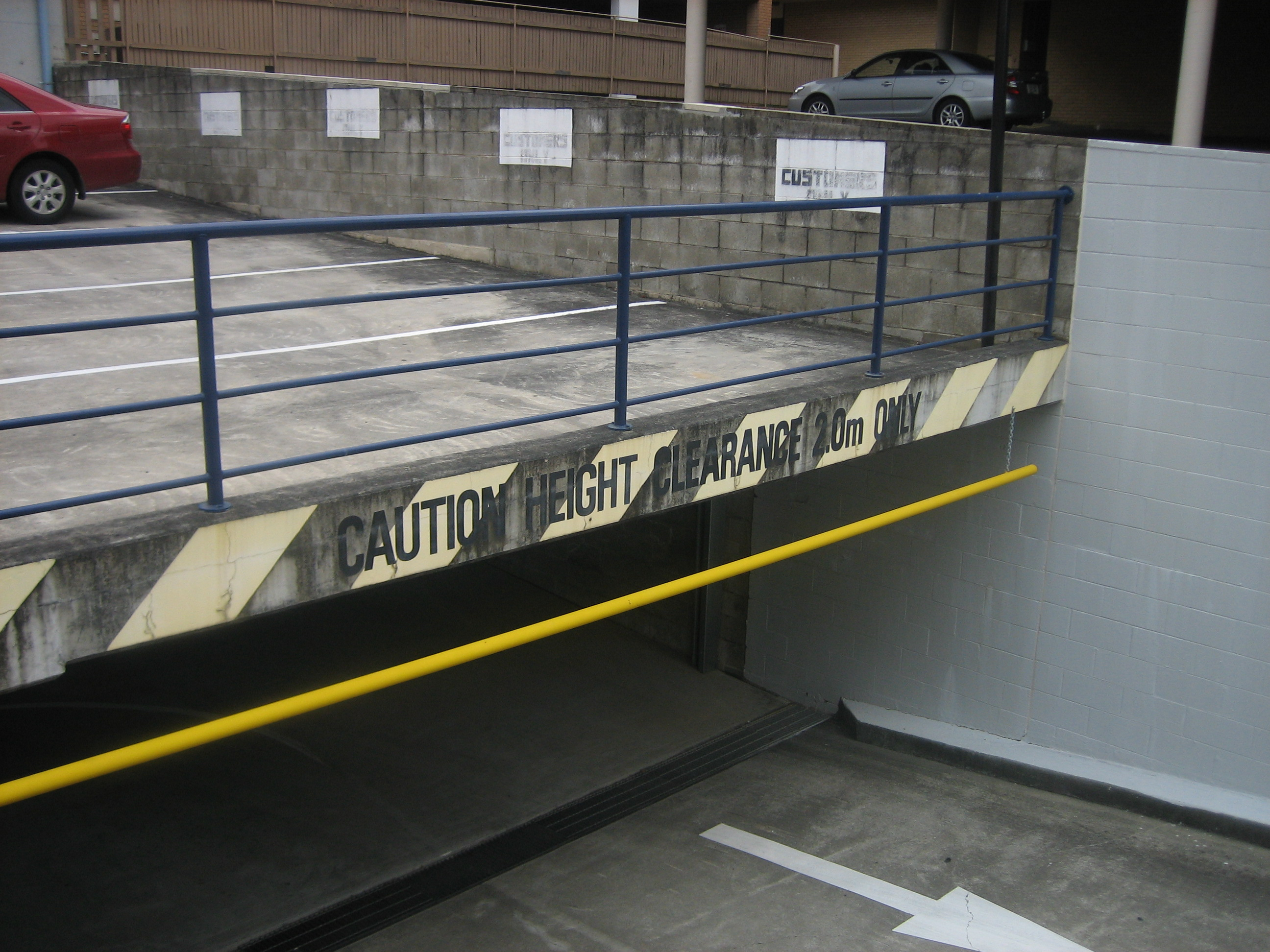 A sign at a carpark entry, warning drivers of the height limitations. Photo taken by myself.